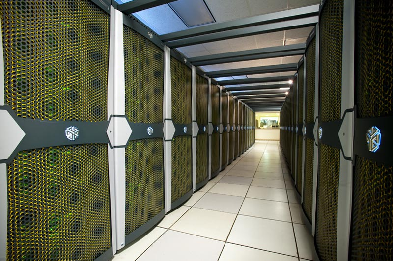 Close up view of two rows of compute cabinets that make up the 100 cabinet Pleiades system. Pleiades Westmere-based racks: The addition of the Westmere and Nehalem nodes increased the computing capacity available on Pleiades by 170%.